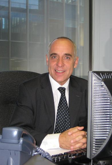 Bruno Cathala